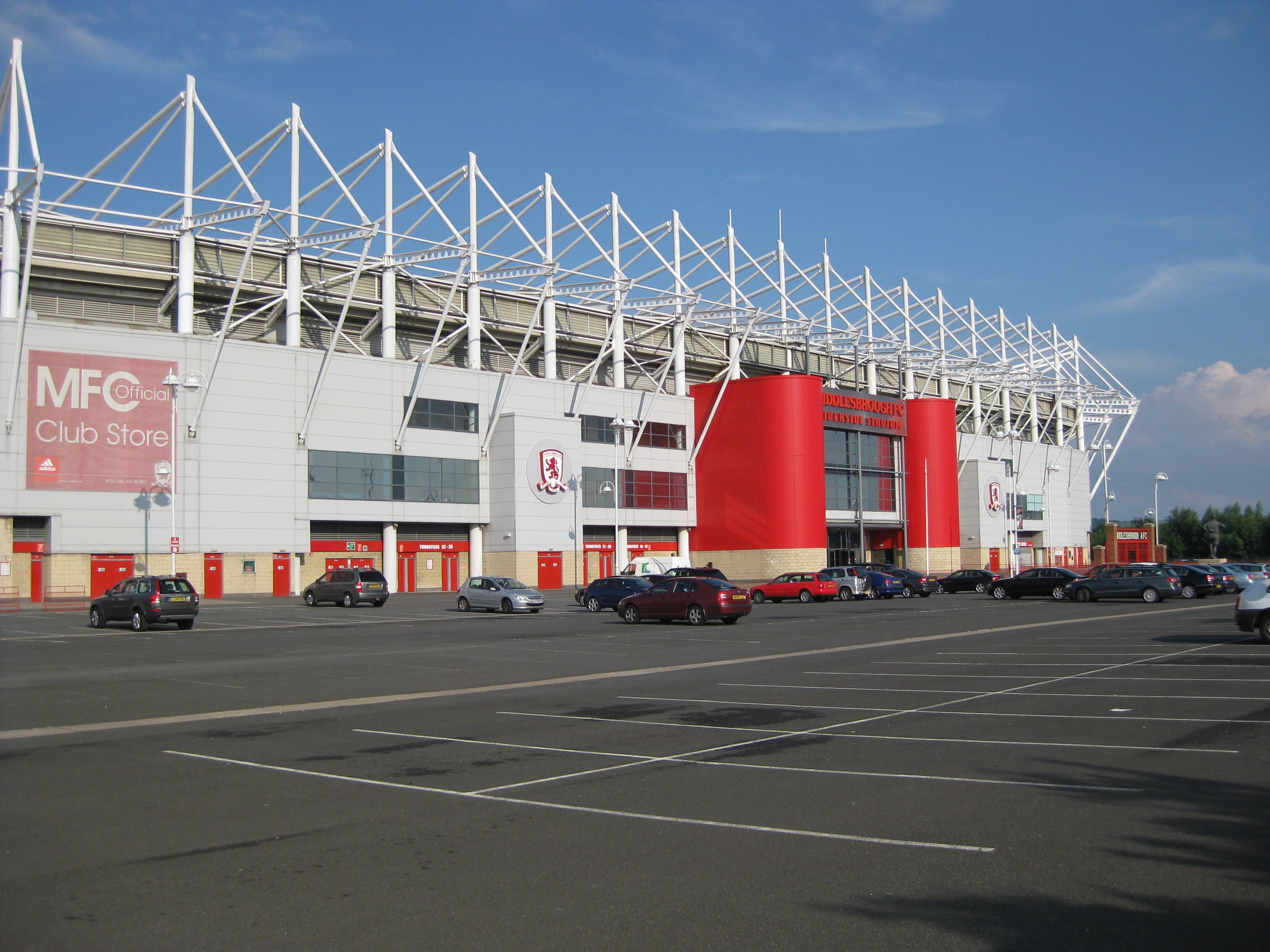 Riverside Stadium, Middlesbrough Football Club. General view with the main entrance.